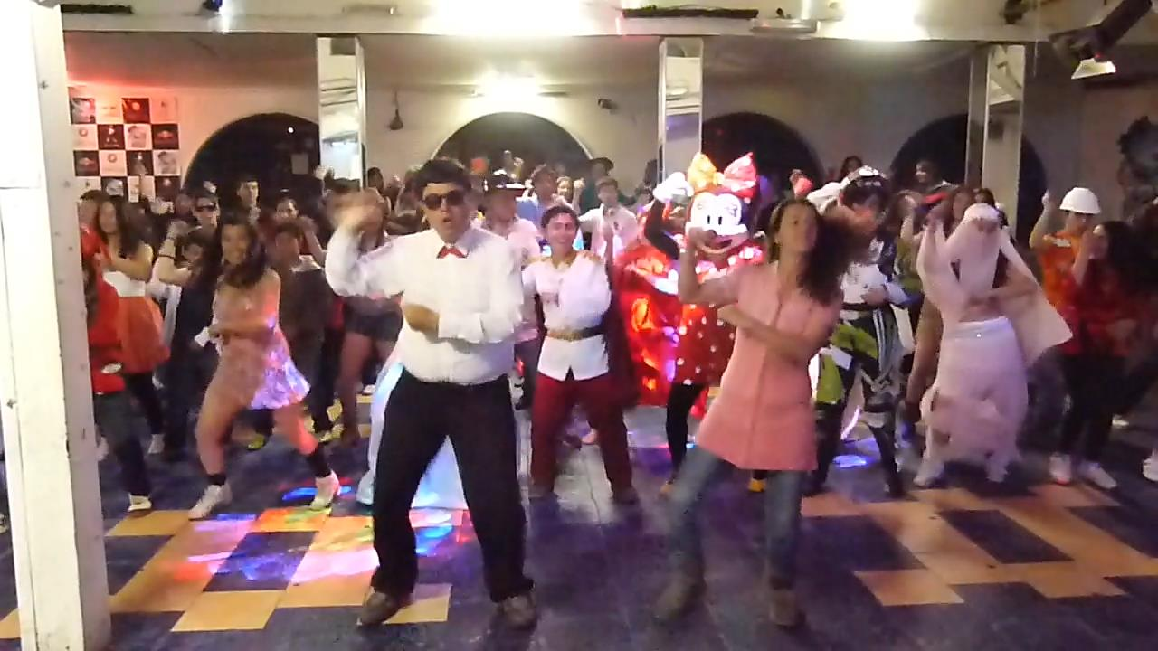 Screenshot of the Gangnam Style music video, recreated by the "Alianza Roja" of the Colegio de la Preciosa Sangre de Pichilemu